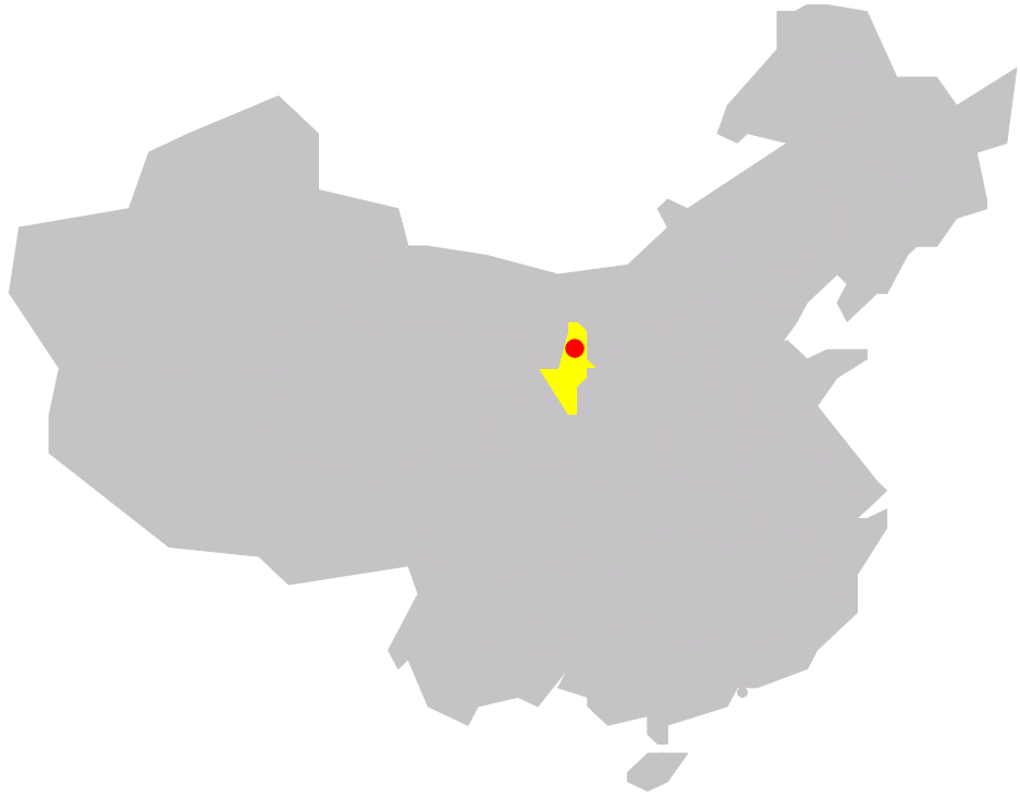 Description: position of Yinchuan in China Source: own work Date: December 2005 Author: --Immanuel Giel 13:42, 16 December 2005 (UTC) Other versions: none Yinchuan Yinchuan Yinchuan